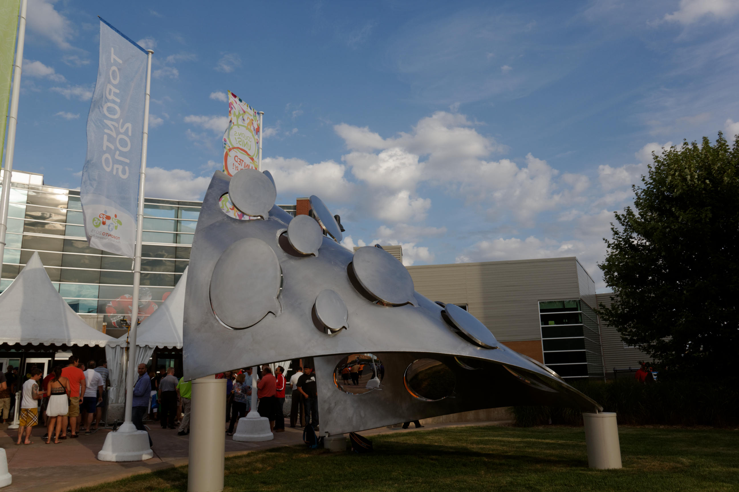 Pan Am Boxing Men's Light Fly Weight 46-49Kg Medal Round